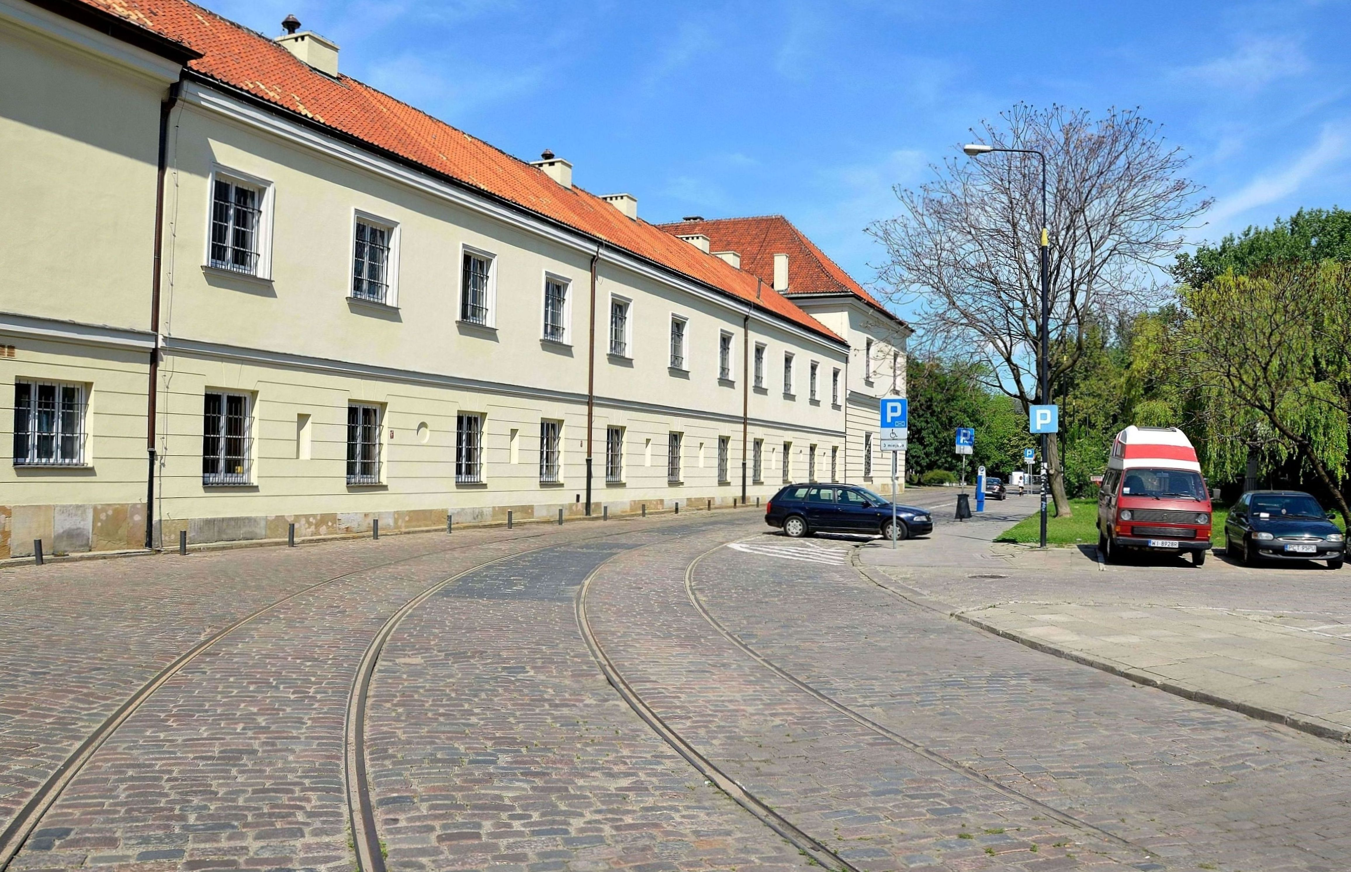 Bohaterów Getta (formerly Nalewki) Street in Warsaw